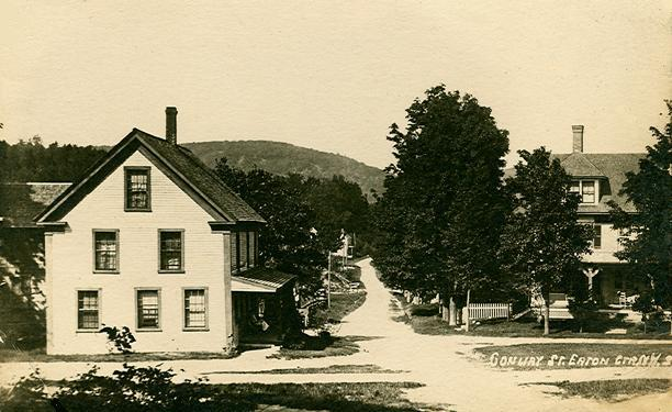 Conway Street in c. 1910, Eaton Center, NH; from an old postcard.